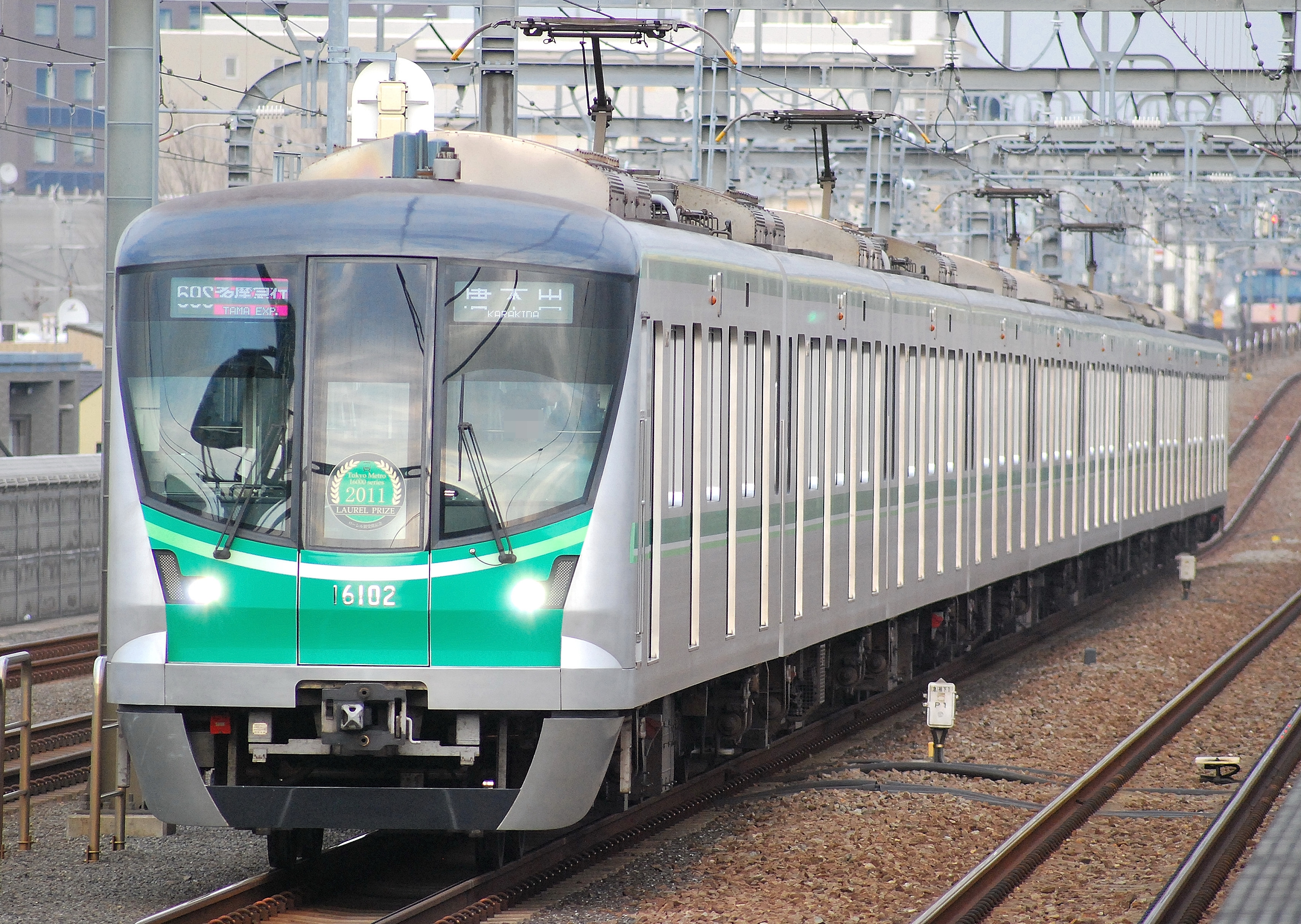 Tokyo Metro 16000 series EMU set 16102